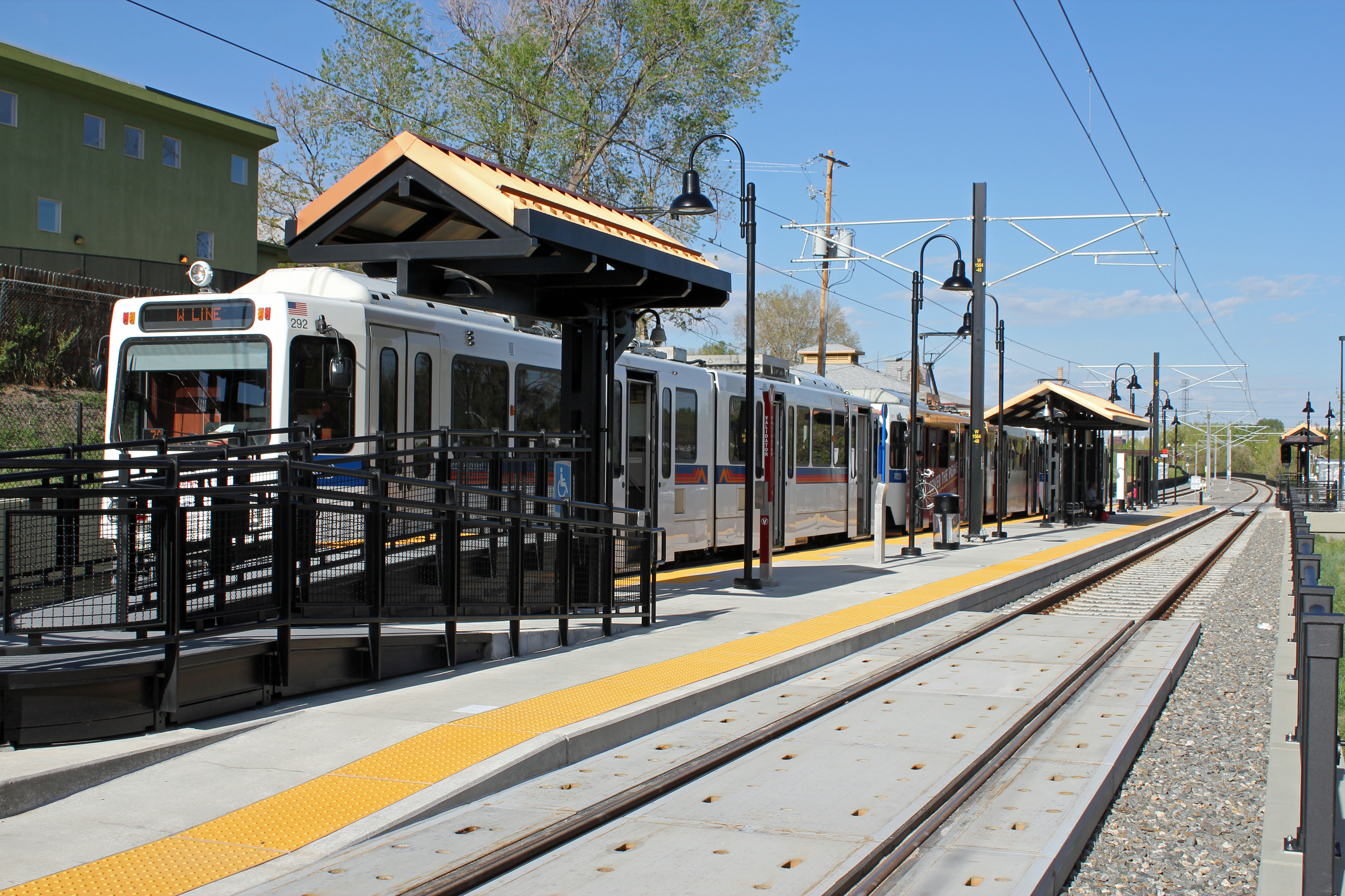 The Knox RTD light rail station in Denver, Colorado. Its address is 1245 Knox Court, Denver, Colorado.